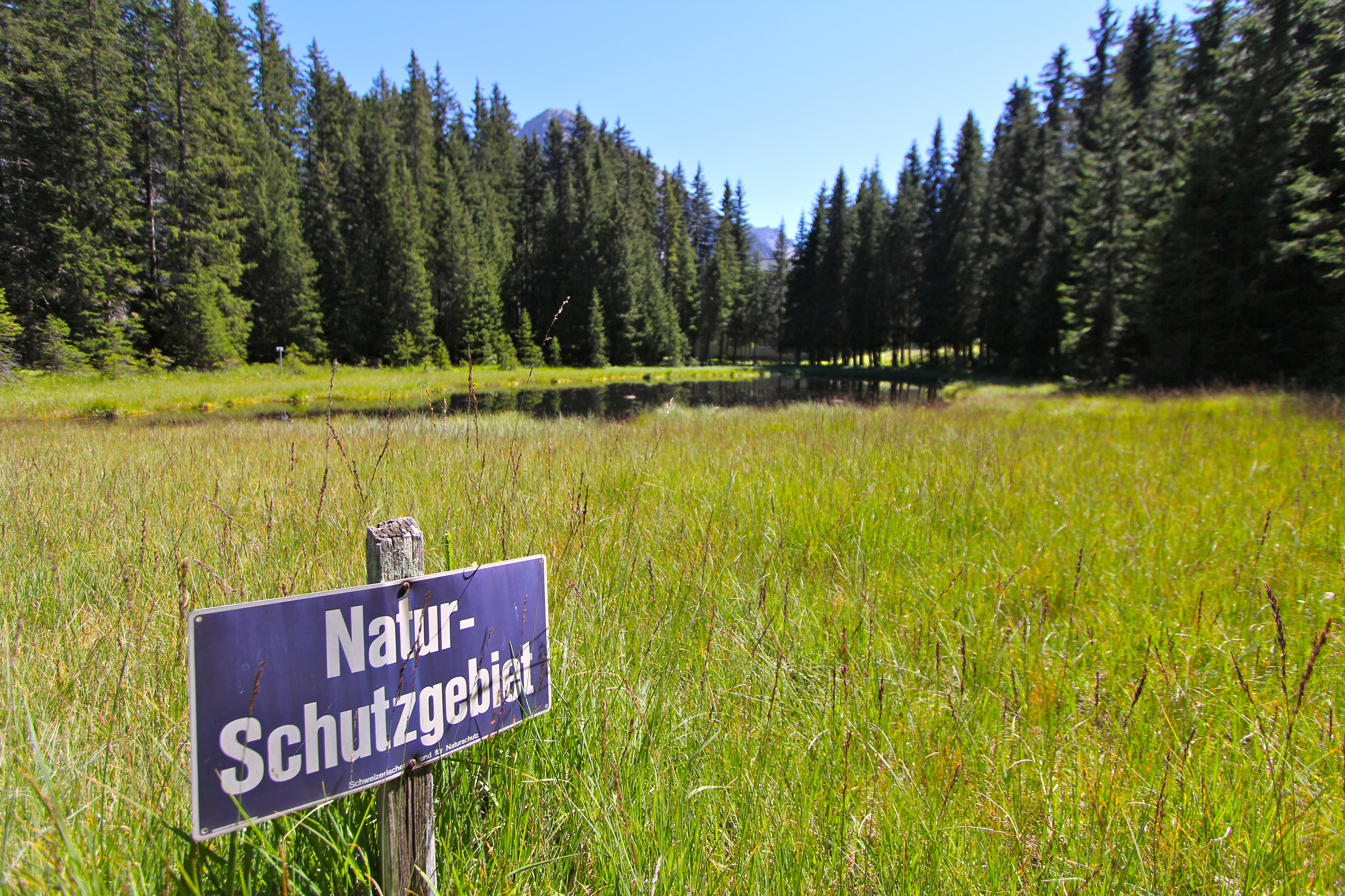 The moore Schwarzsee at Arosa/Switzerland.